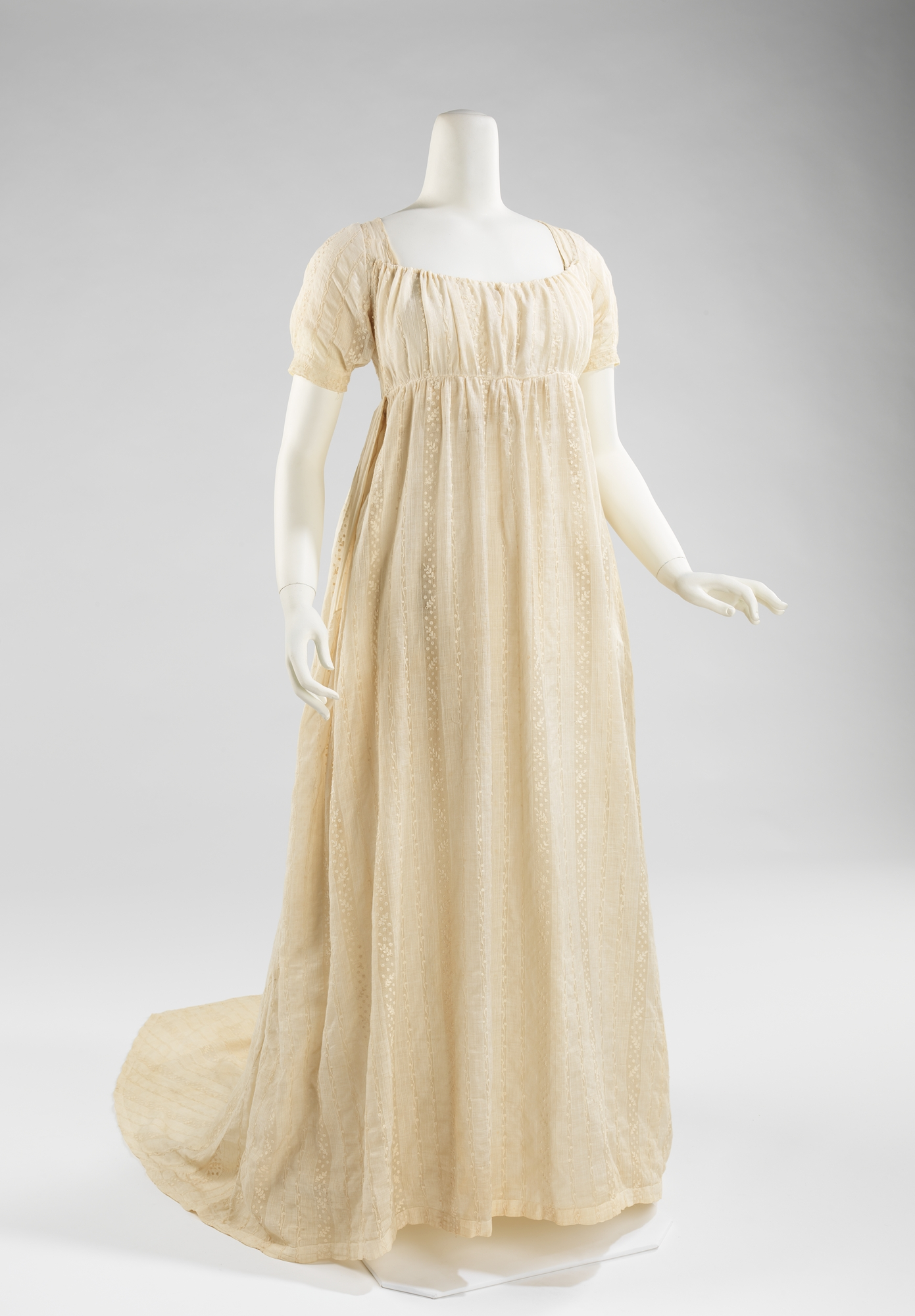 American; Dress